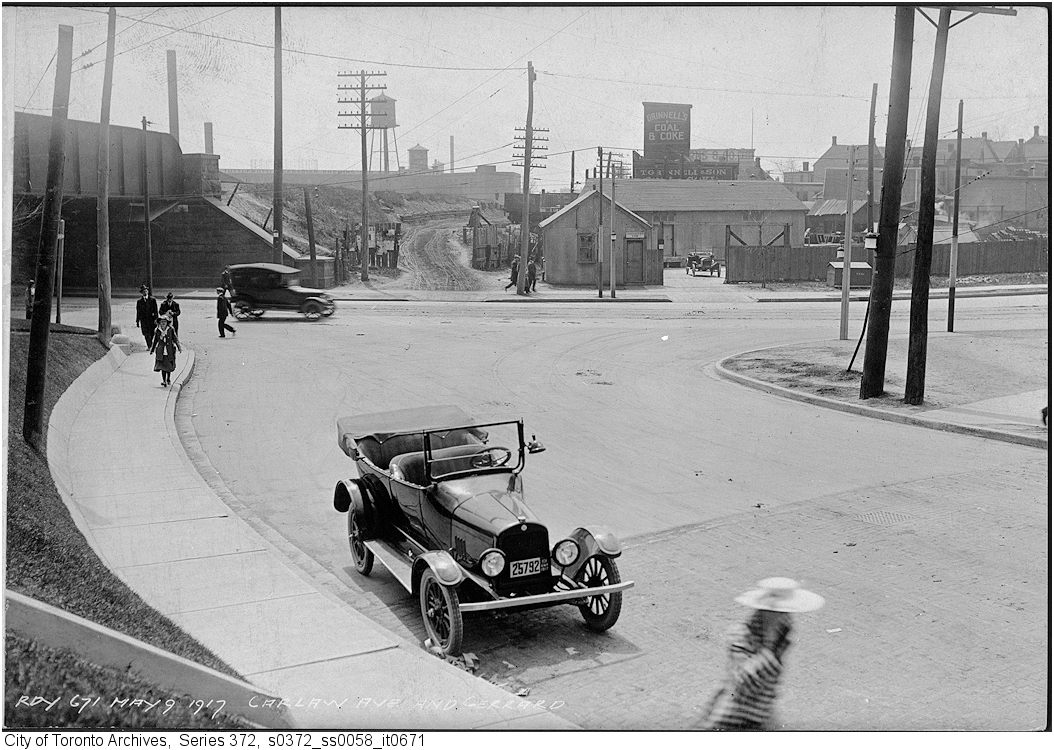 Photographer: Arthur Goss May 9, 1917 City of Toronto Archives Series 372, Subseries 58, Item 671 This image is available from the City of Toronto Archives, listed under the archival citation Series 372, Subseries 58, Item 671. This tag does not indicate the copyright status of the attached work. A normal copyright tag is still required. See Commons:Licensing for more information.